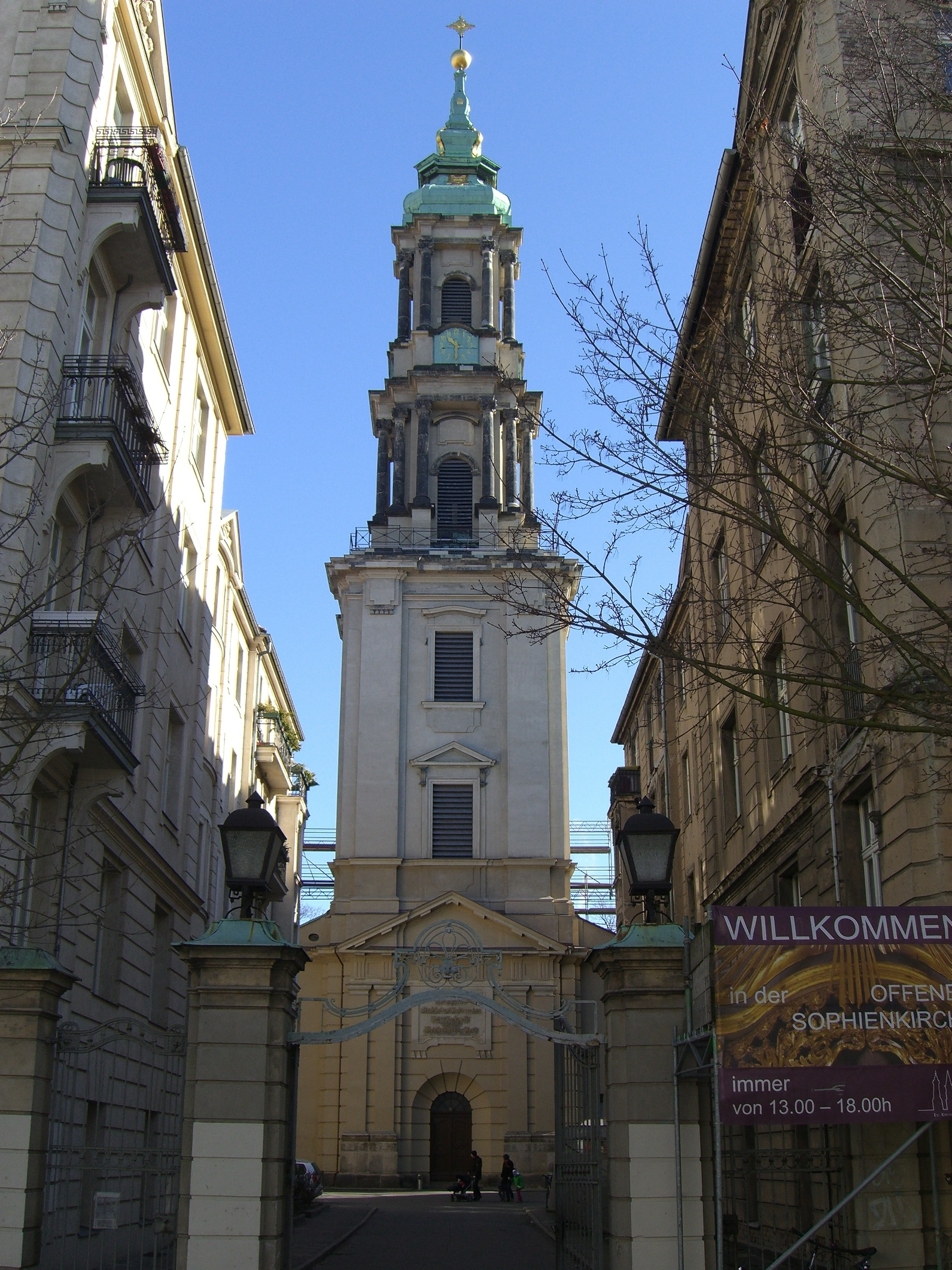 "Sophienkirche" (Sophia church) in Berlin-Mitte.